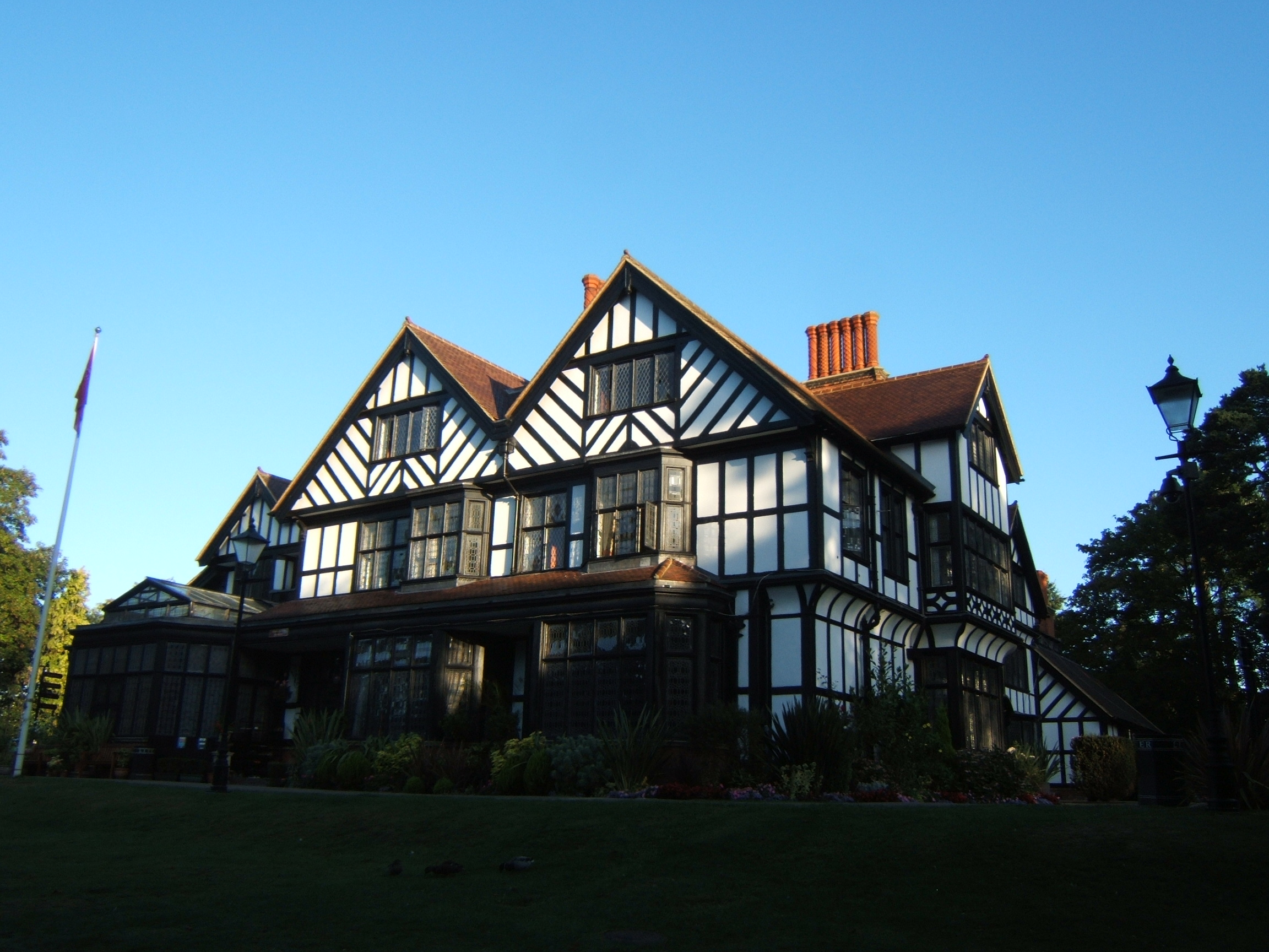 Gaudiya Vaishnava Hindu ISKCON Temple in the village of Aldenham near Watford